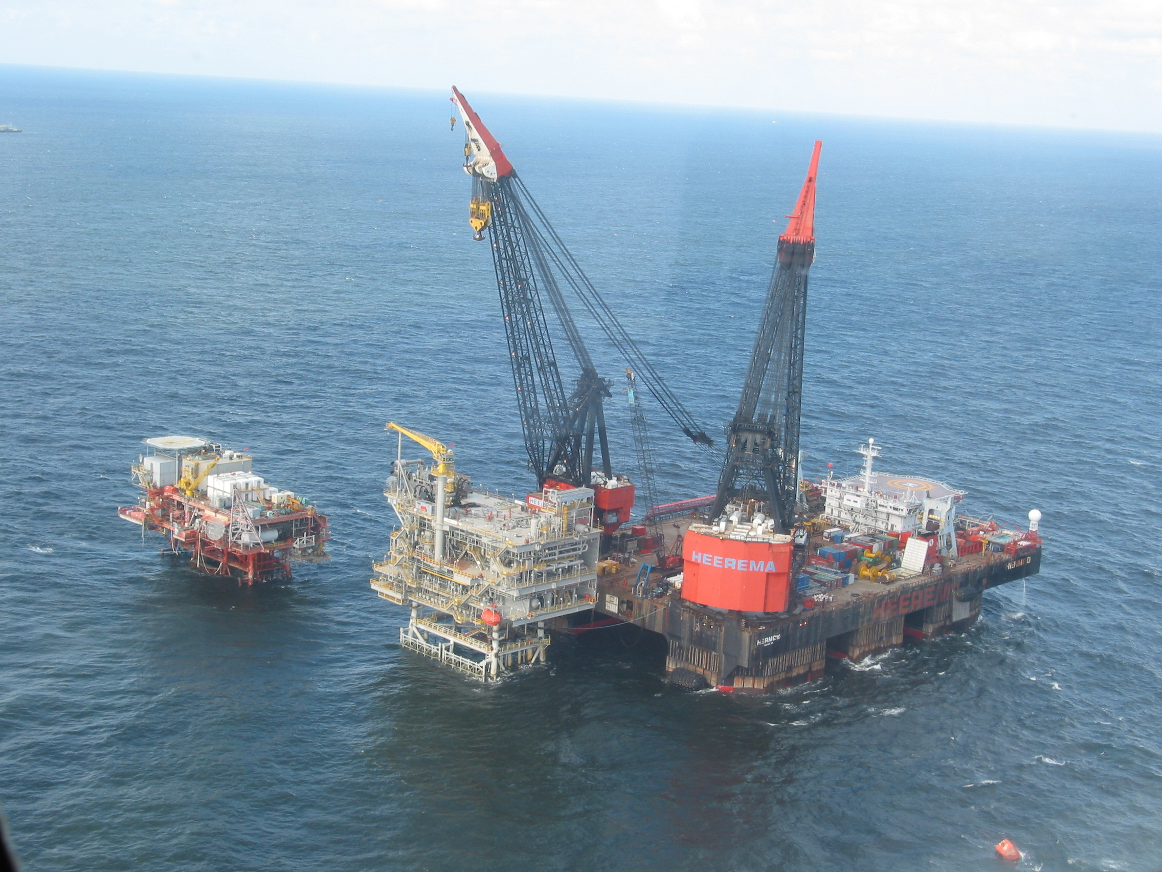 Hermod at Cassia A and Cassia B platforms, offshore Trinidad